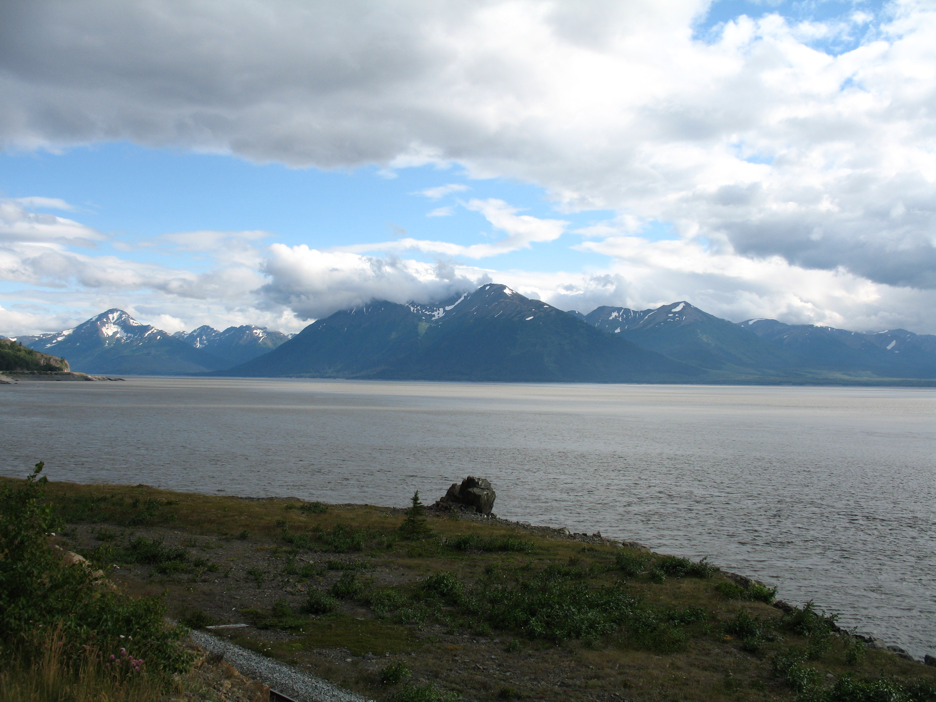 Kenai Fjords National Park